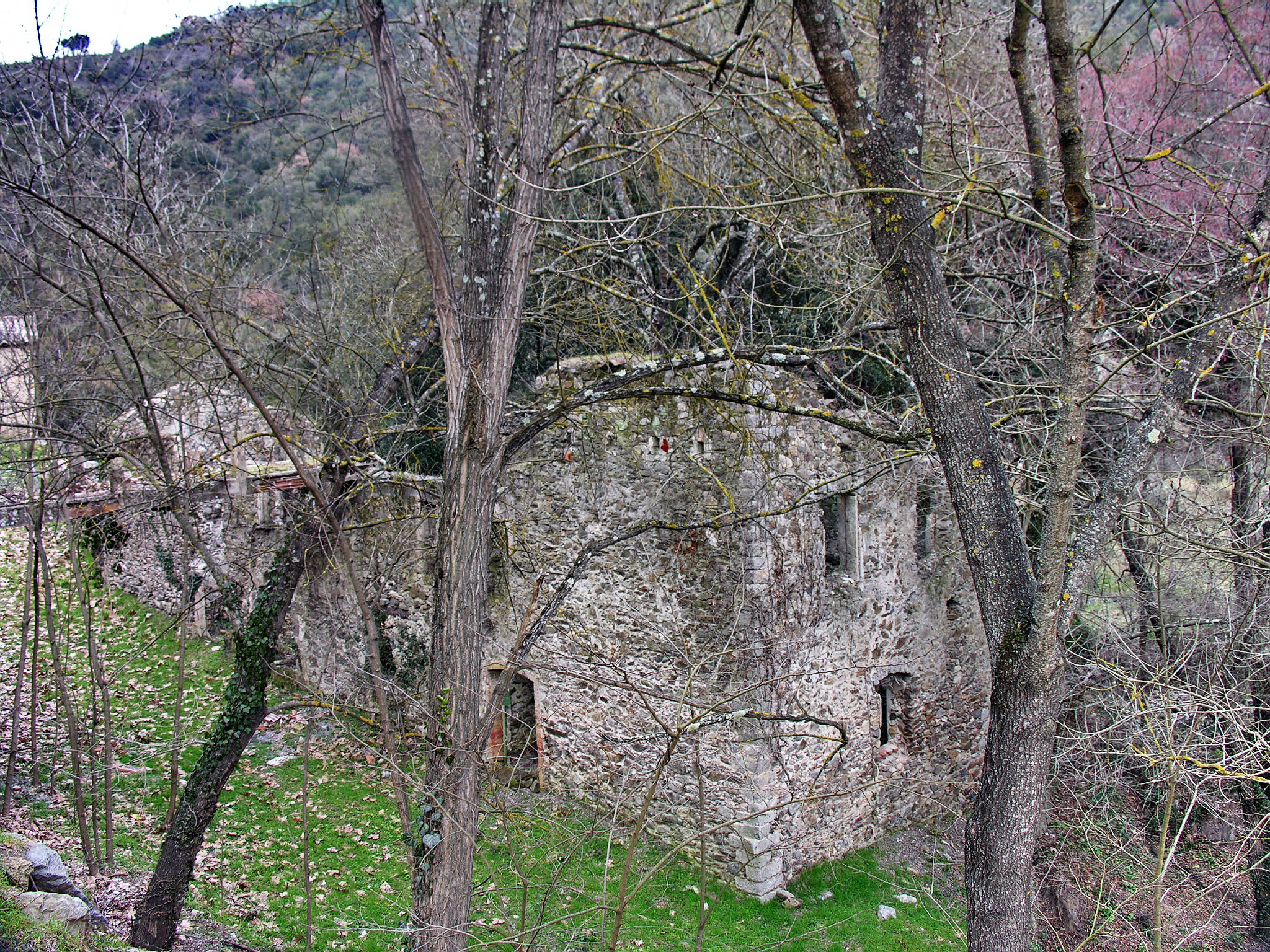 MTanneron (Var) old watermills on Siagne river